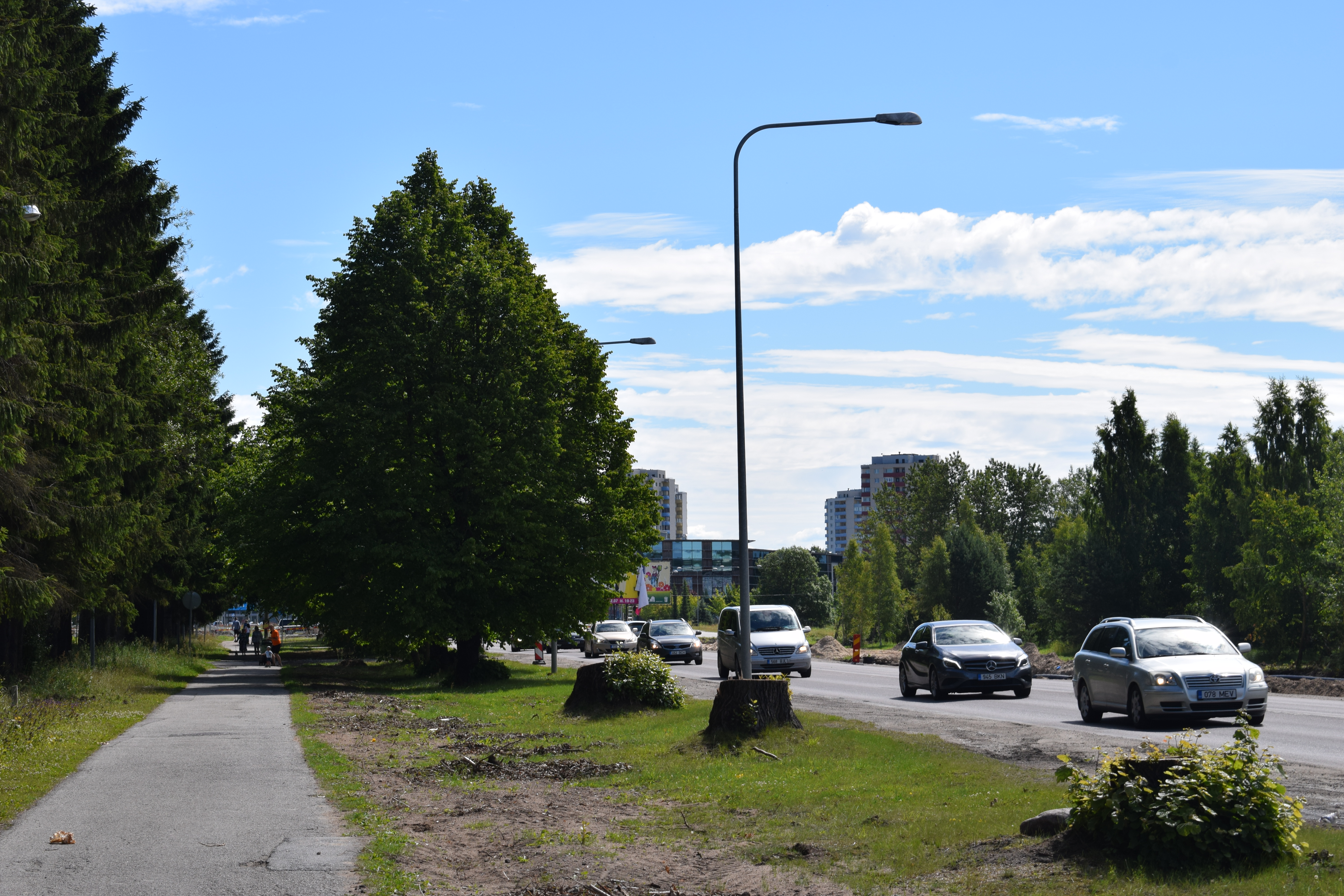 Rannamõisa tee